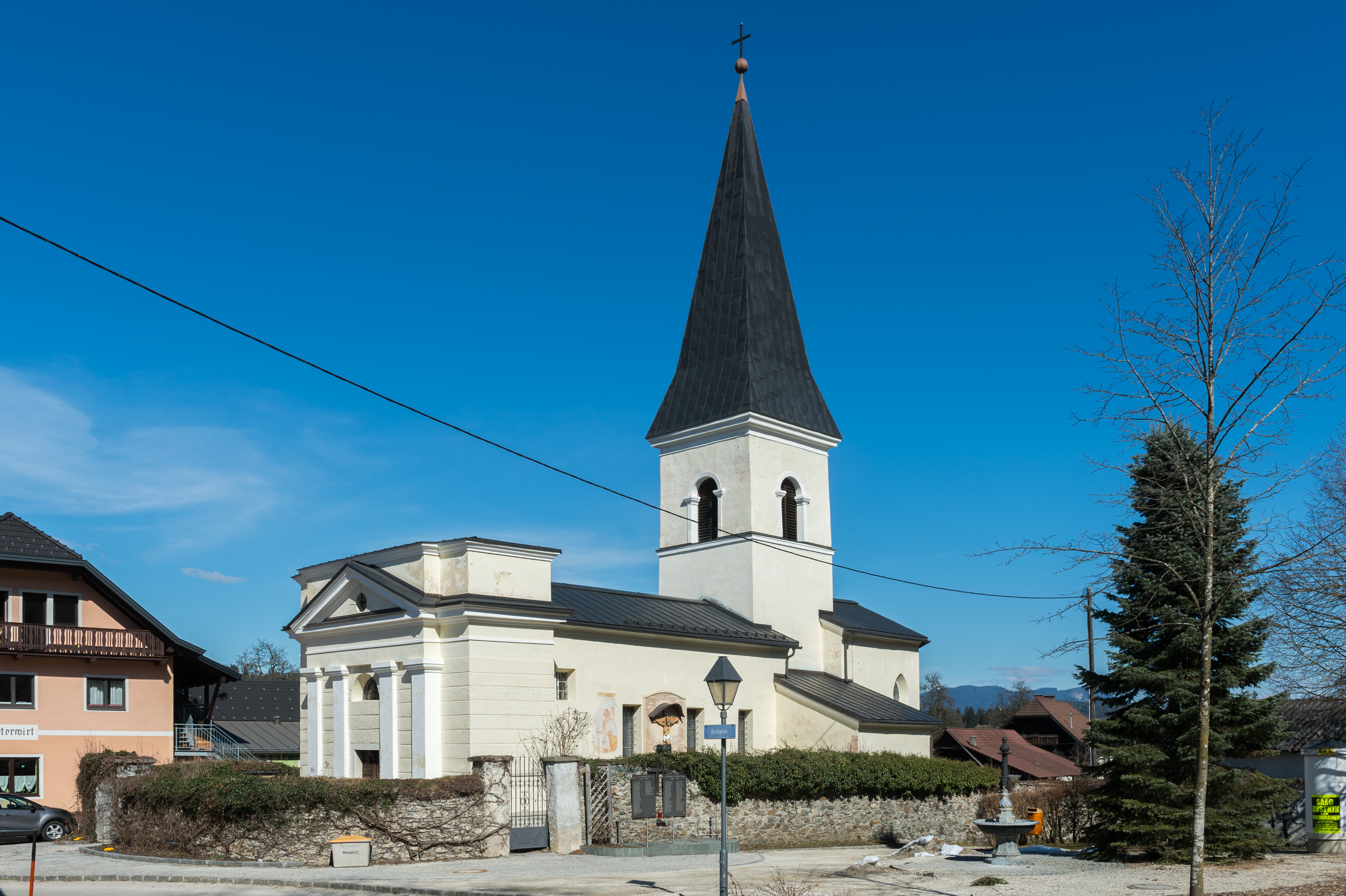 Parish church Saint Lawrence on Kirchplatz #5 in Glanhofen, municipality Feldkirchen, district Feldkirchen, Carinthia, Austria, EU